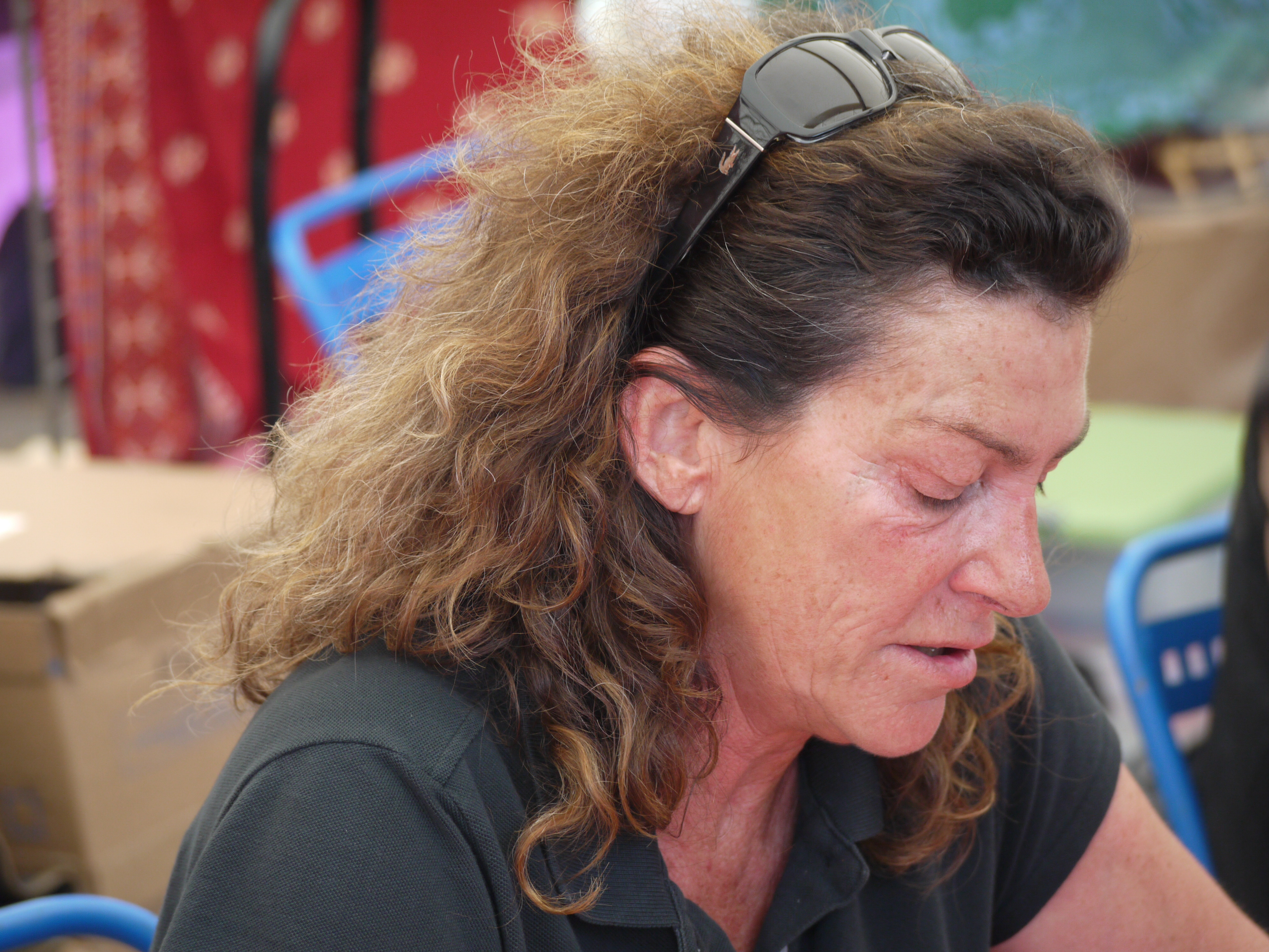 Photograph taken during the 2009 edition of the 'Comédie du Livre' of Montpellier, France. Personality rights warningAlthough this work is freely licensed or in the public domain, the person(s) shown may have rights that legally restrict certain re-uses unless those depicted consent to such uses. In these cases, a model release or other evidence of consent could protect you from infringement claims.